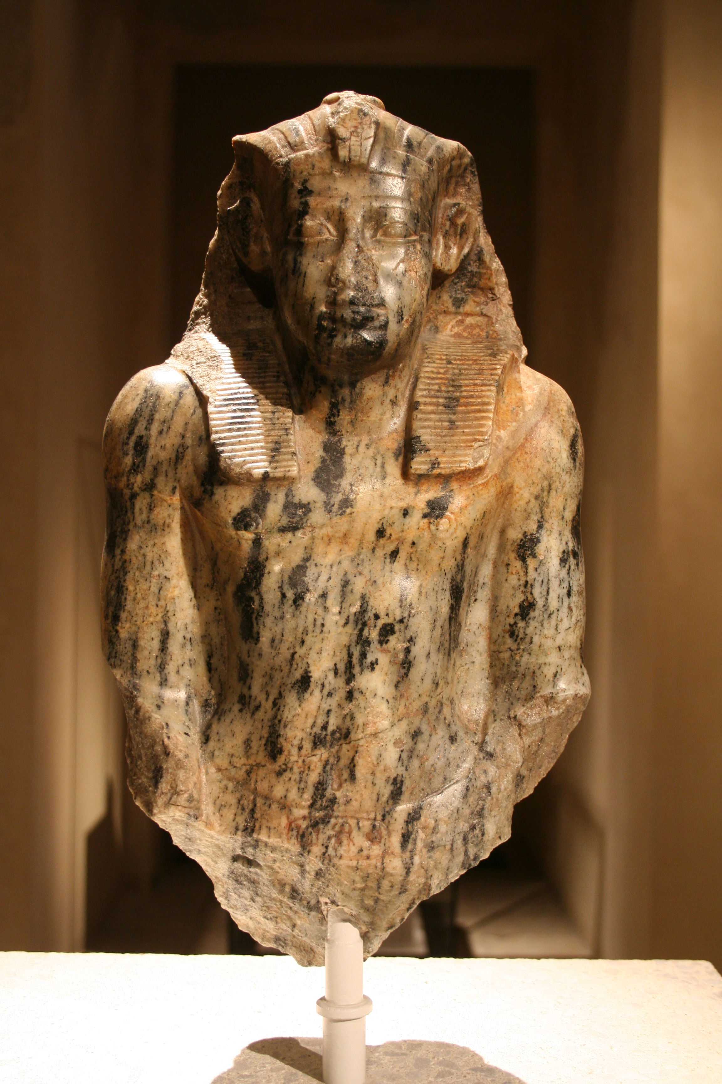 Ägyptisches Museum (Egyptian Museum), Berlin